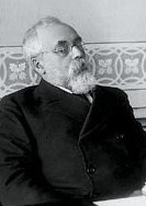 Sergej Andreevitsch Muromzev (1850-1910) first president of russian duma (1906)